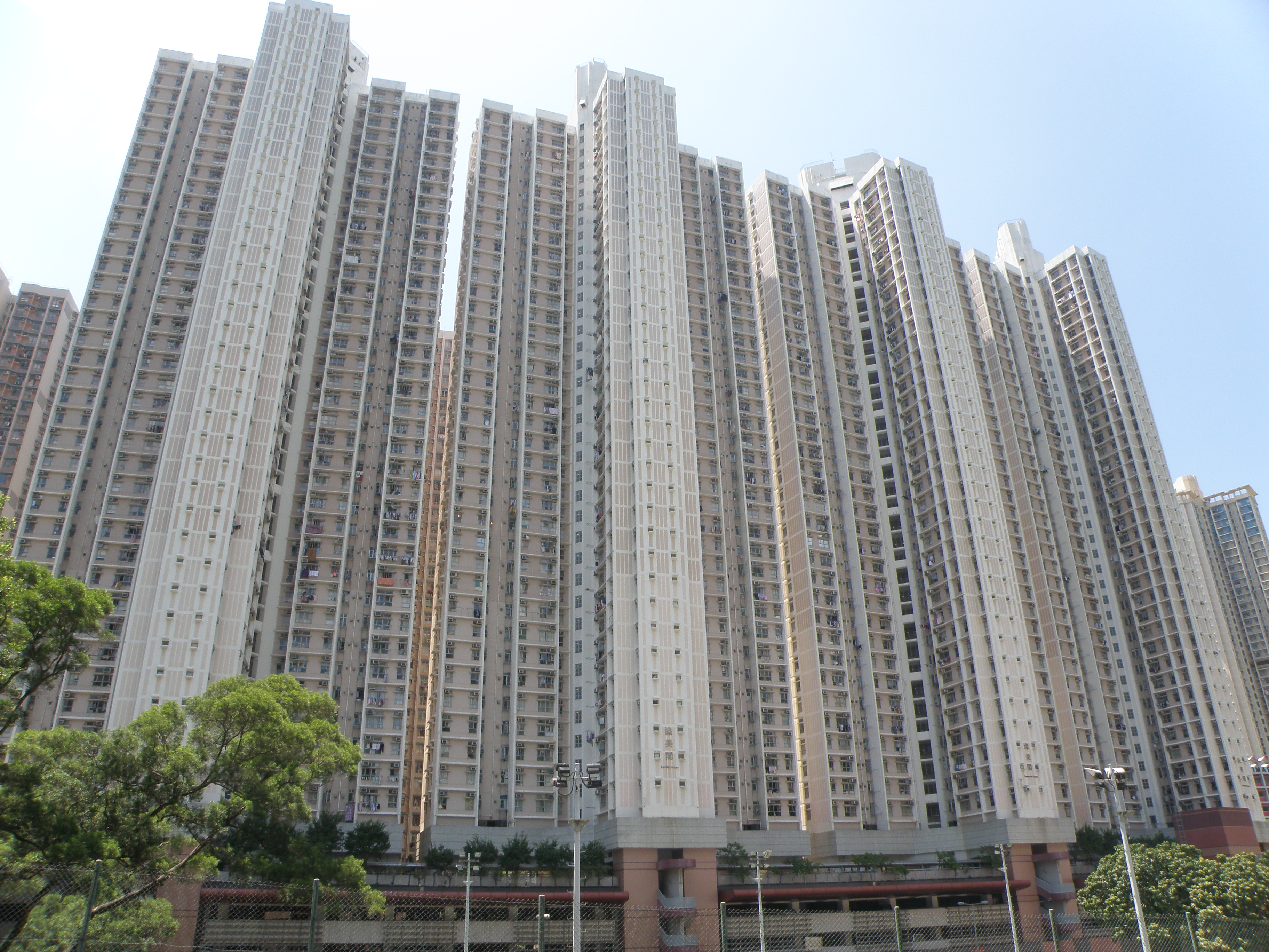 Yau Tsui Court in Yau Tong, Hong Kong.